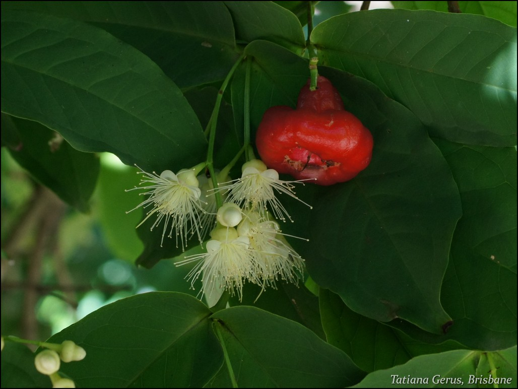 Small tree of Myrtaceae family Common names: Water Cherry, Watery Rose Apple, Lau Lau, Bell fruit. The fruit is bell shaped, waxy and crisp, white inside, size 3-5cm. Edible. Very tropical sign - flowering and fruiting at the same time! Native to tropical Australasia (NE Australia, India, SE Asia, Malesia) Mt. Coot-tha Botanic Garden, Brisbane